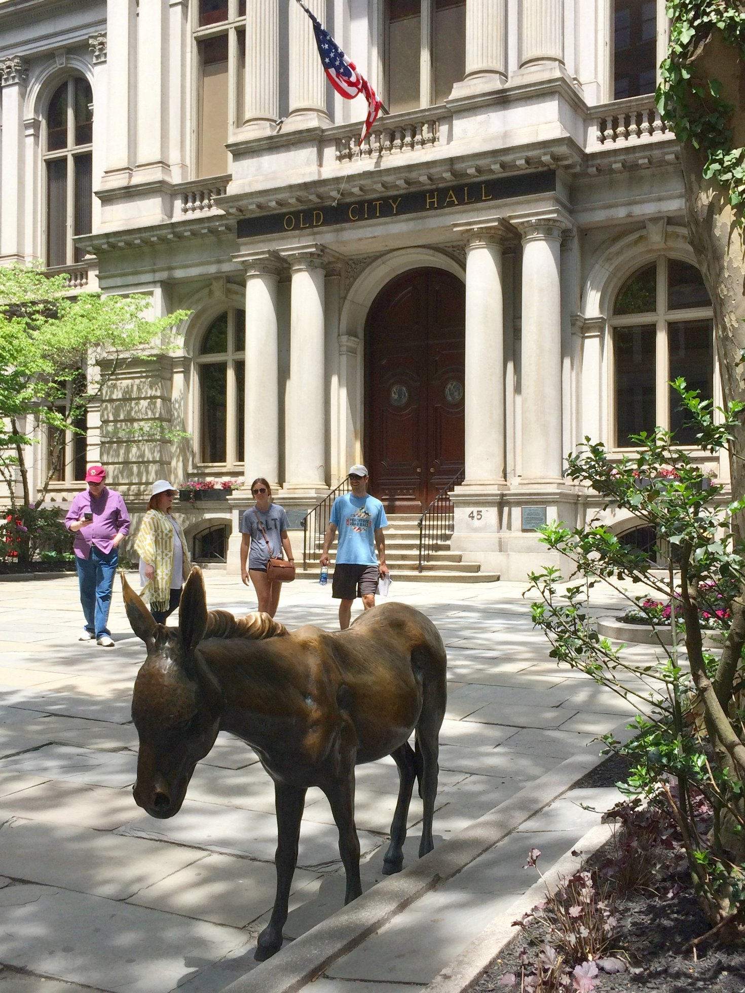 This statue of a donkey, found by preservationist Roger Webb in an antique market in Florence, was placed in front of Boston's Old City Hall in 1998. (The story that it represents the Democratic Party, the dominant one in Boston politics for over a century, is apocryphal; apparently Webb, who owns the building, just liked the look of it).